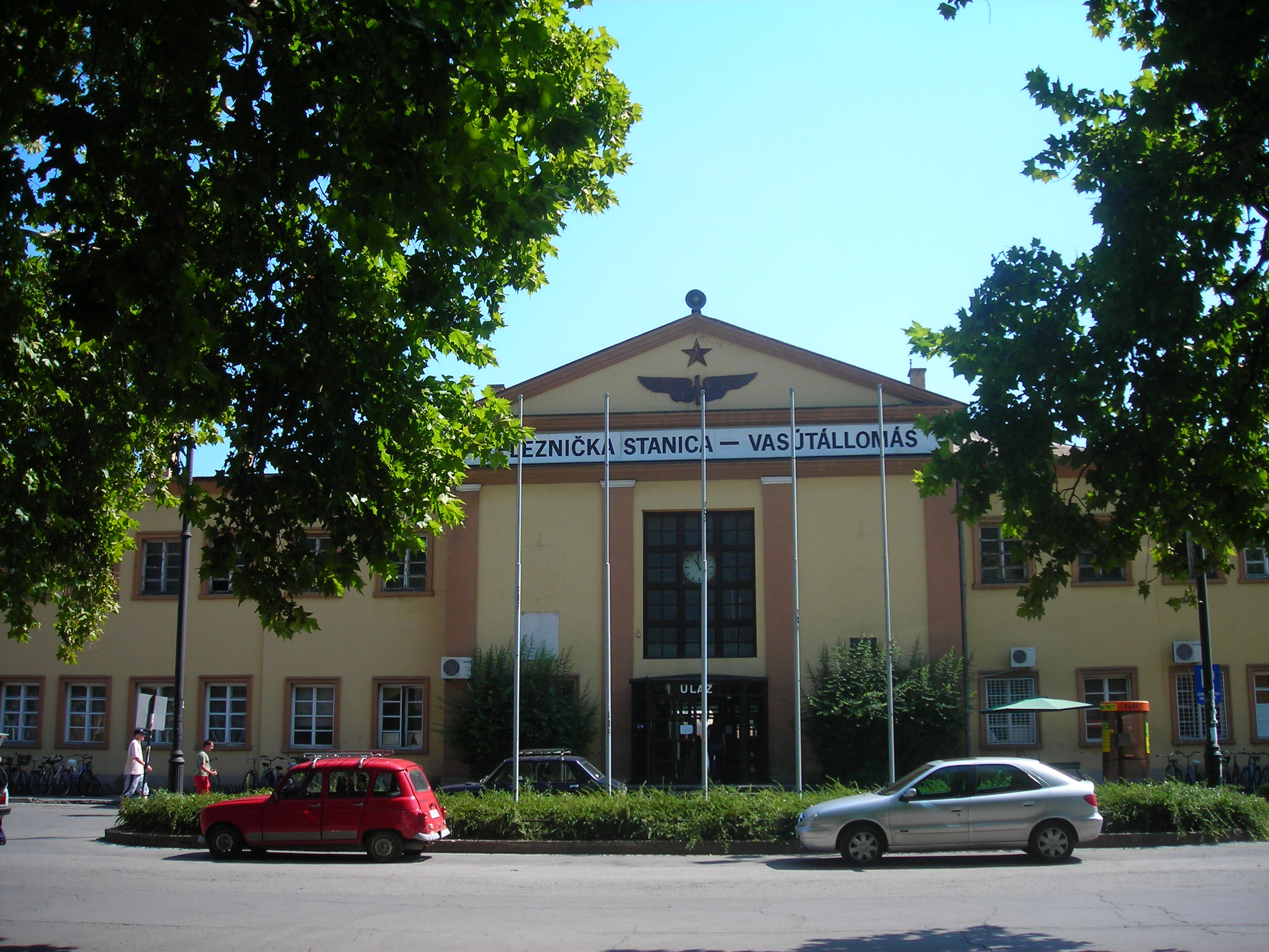 Subotica Railway Station